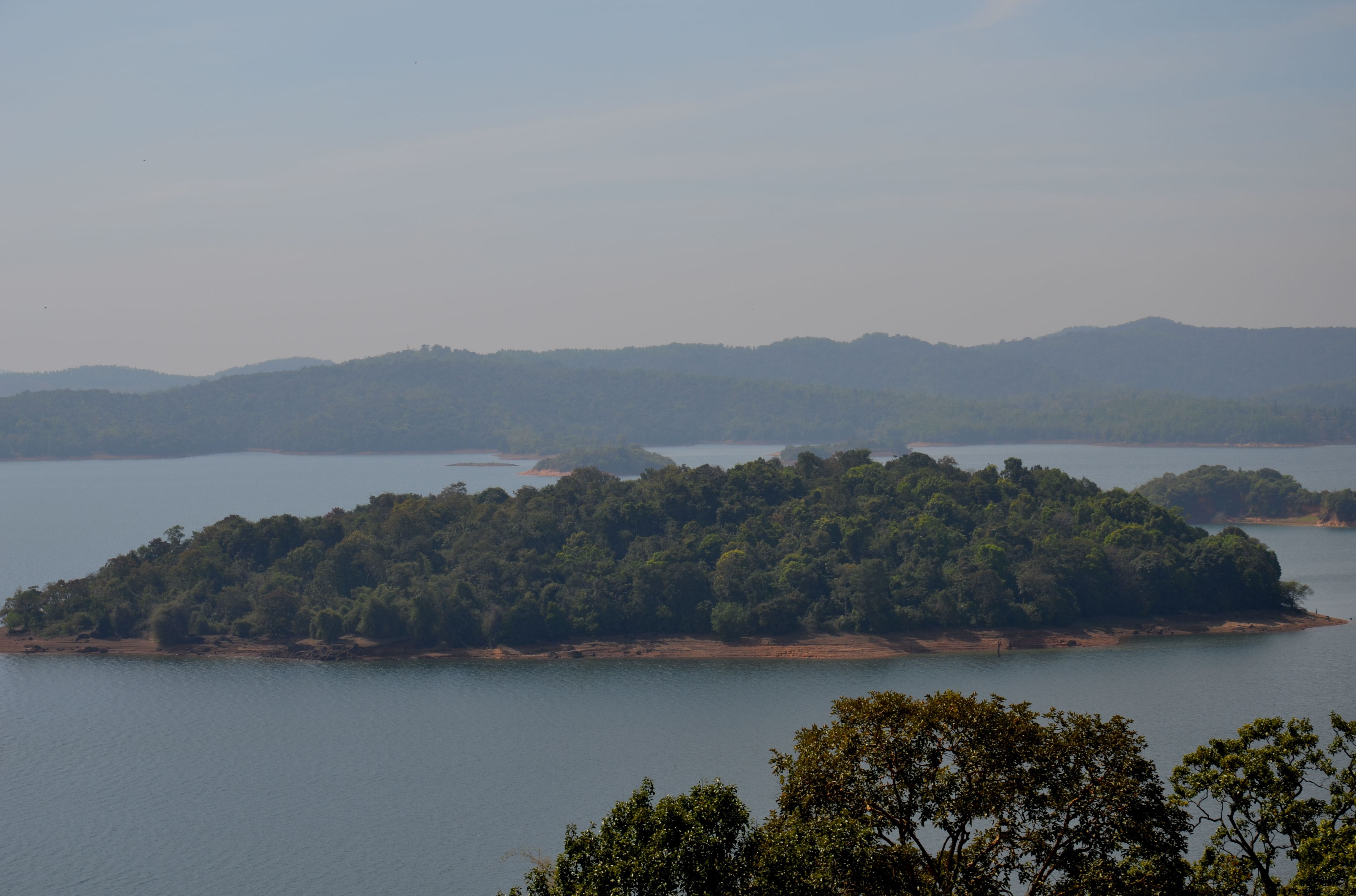 These pics were taken at Honnemaradu